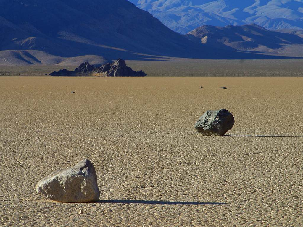 a view Racetrack Playa in Death Valley National Park, where rocks are moved by the wind